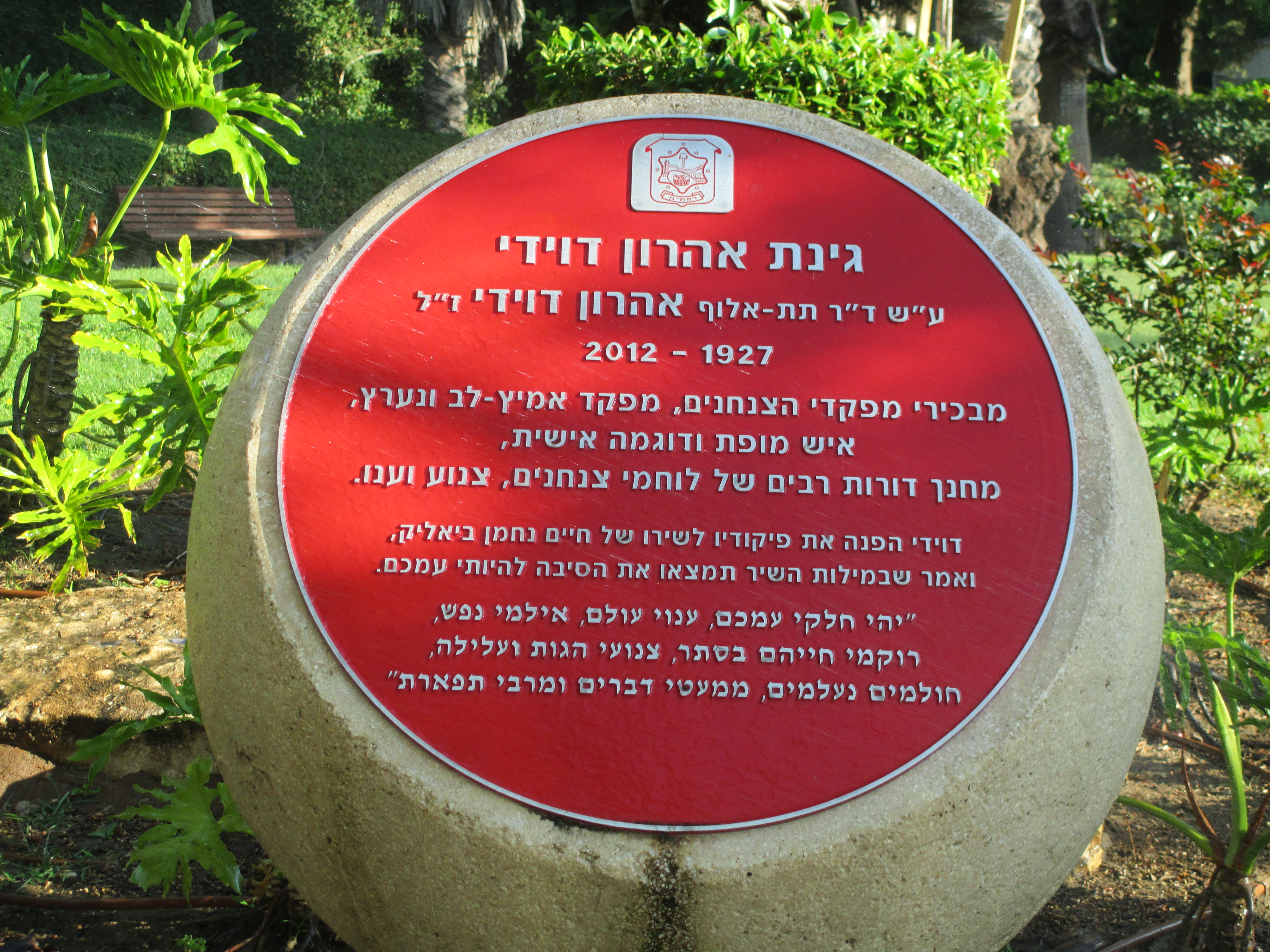 Aharon Davidi garden in Ramat Gan